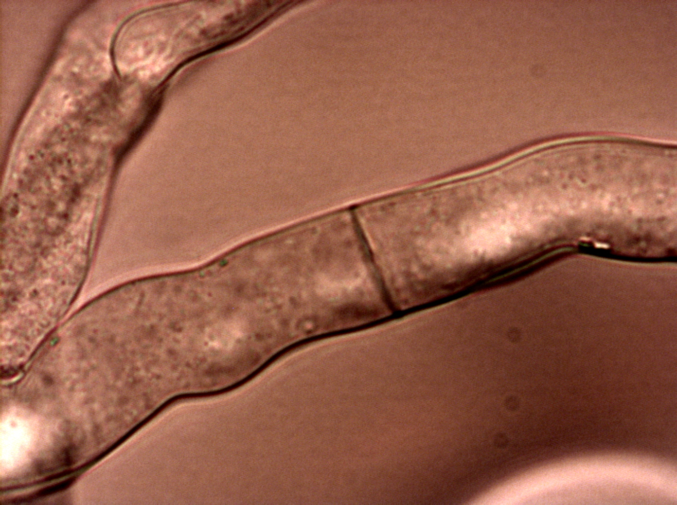 Hyphae of Neurospora crassa with septum and porus